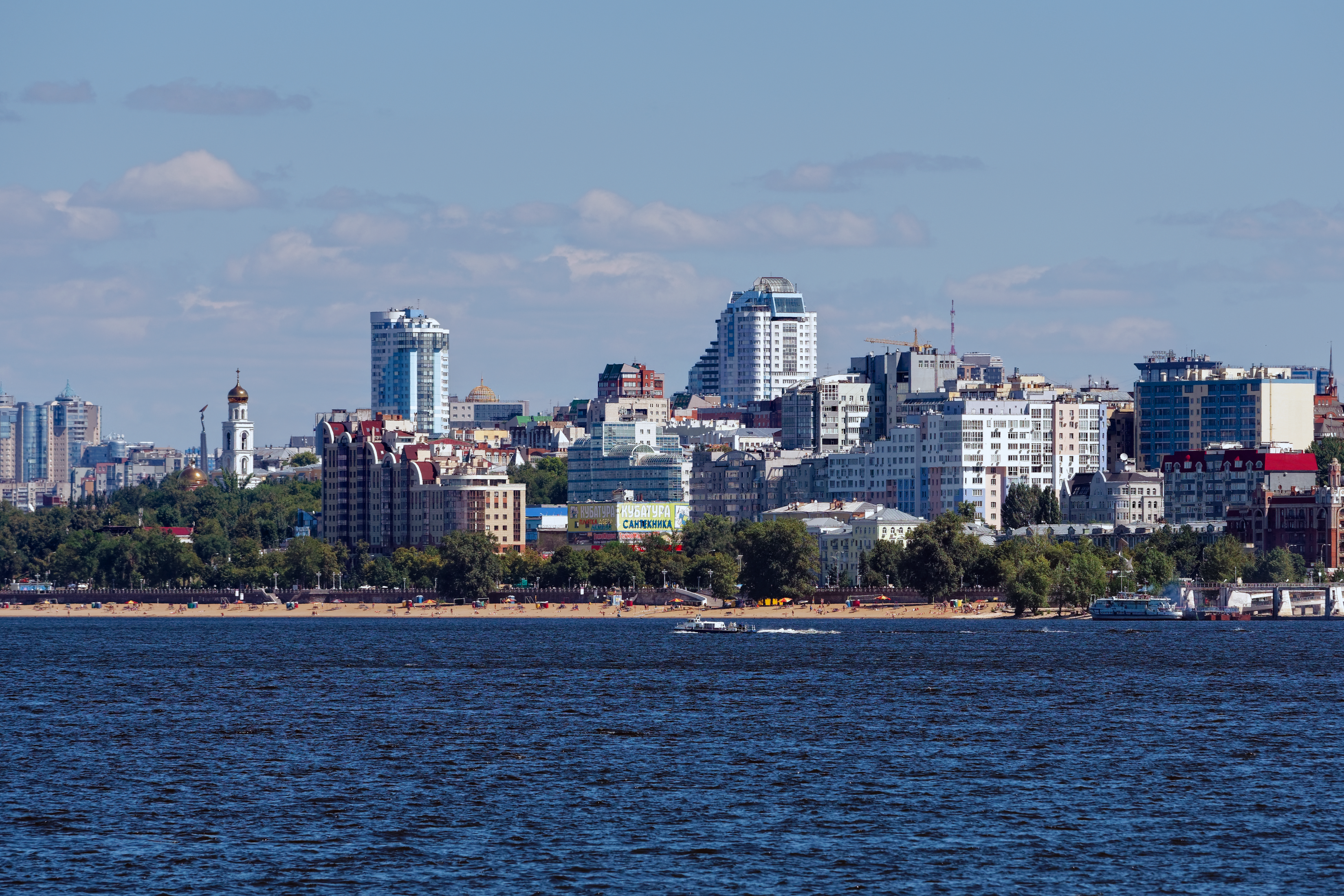 Samara